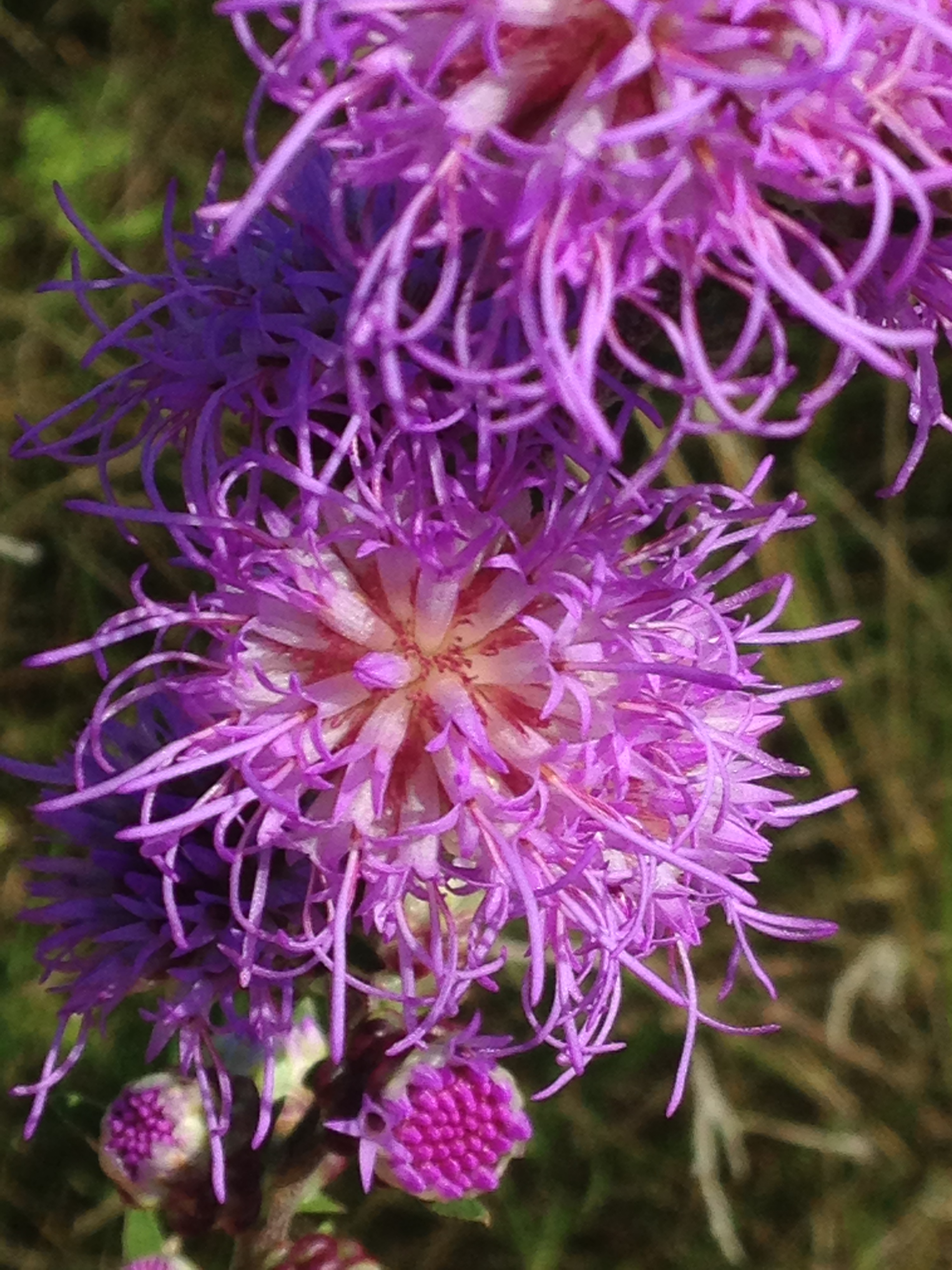 Liatris aspera (Rough or prairie blazing star) can be found across the mixed grass prairies of the Kulm Wetland Management District, North Dakota. Photo Credit: Krista Lundgren/USFWS